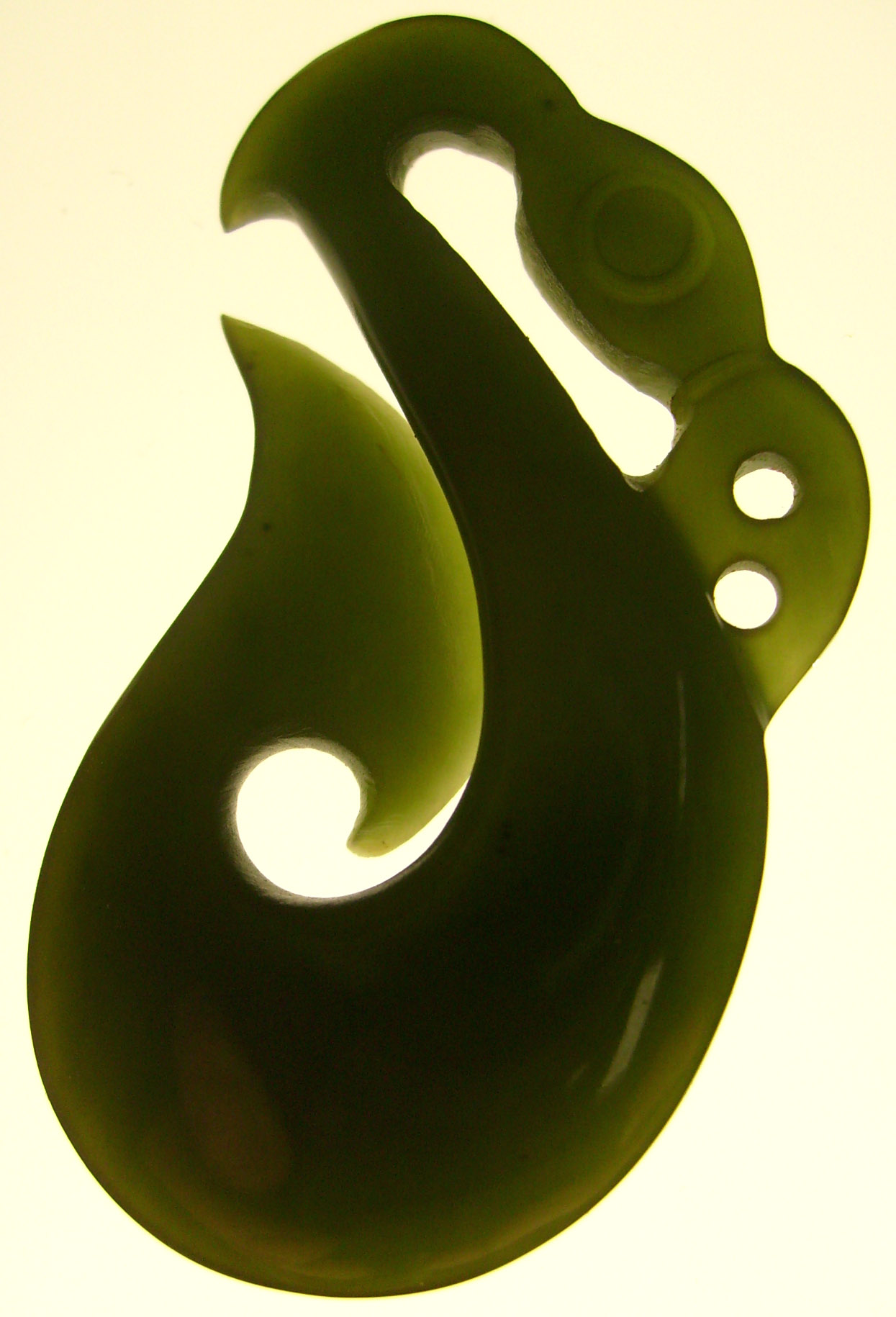 Jade pendant: Māori style Manaia; NewZealand "Greenstone" work